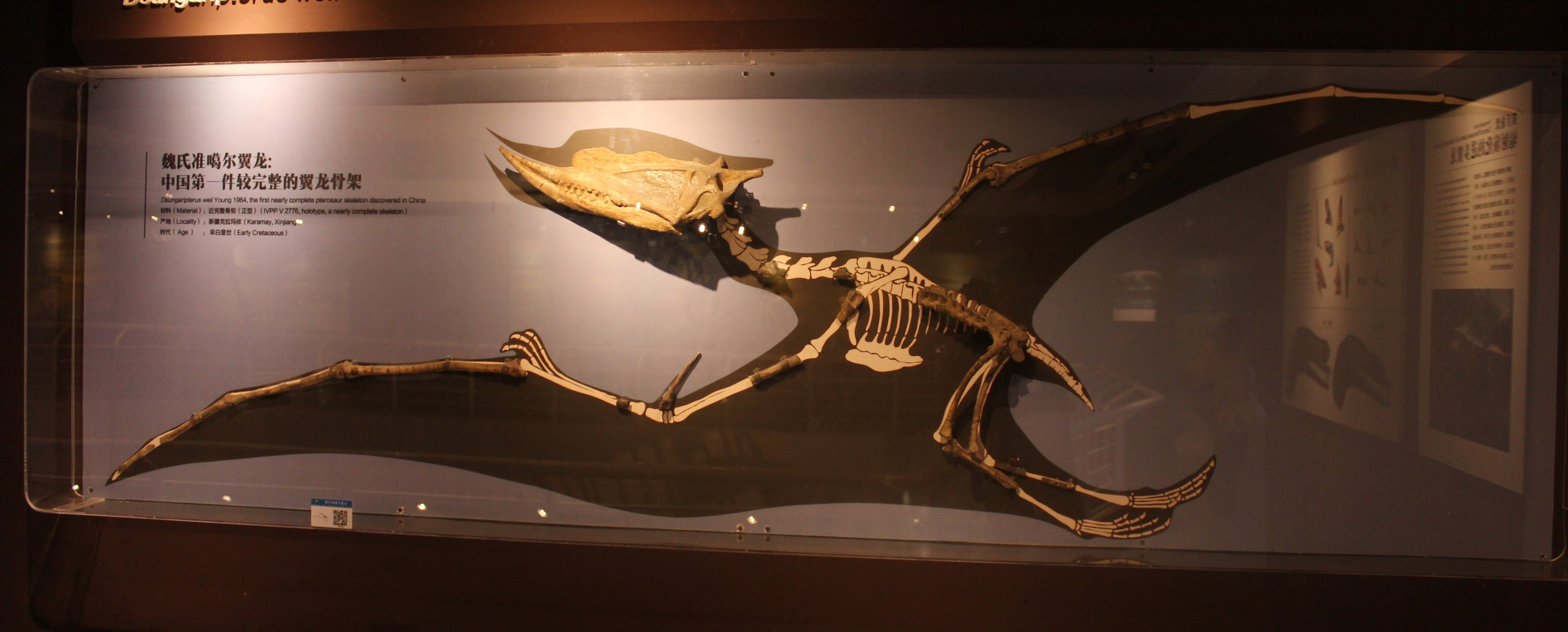 Holotype skeleton of Dsungaripterus weii on display at the Paleozoological Museum of China.